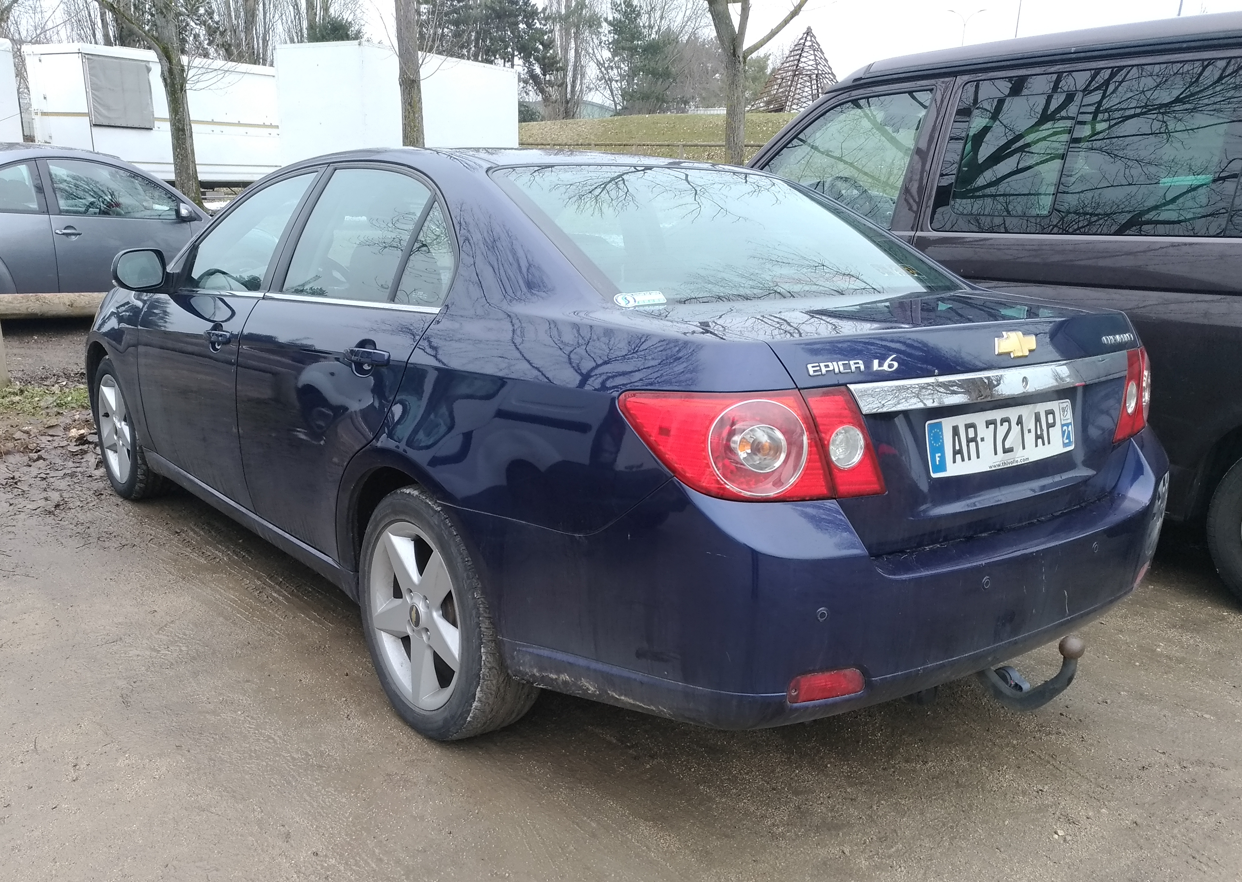 Chevrolet Epica (2.5 156 hp) at Chalon sur Saone